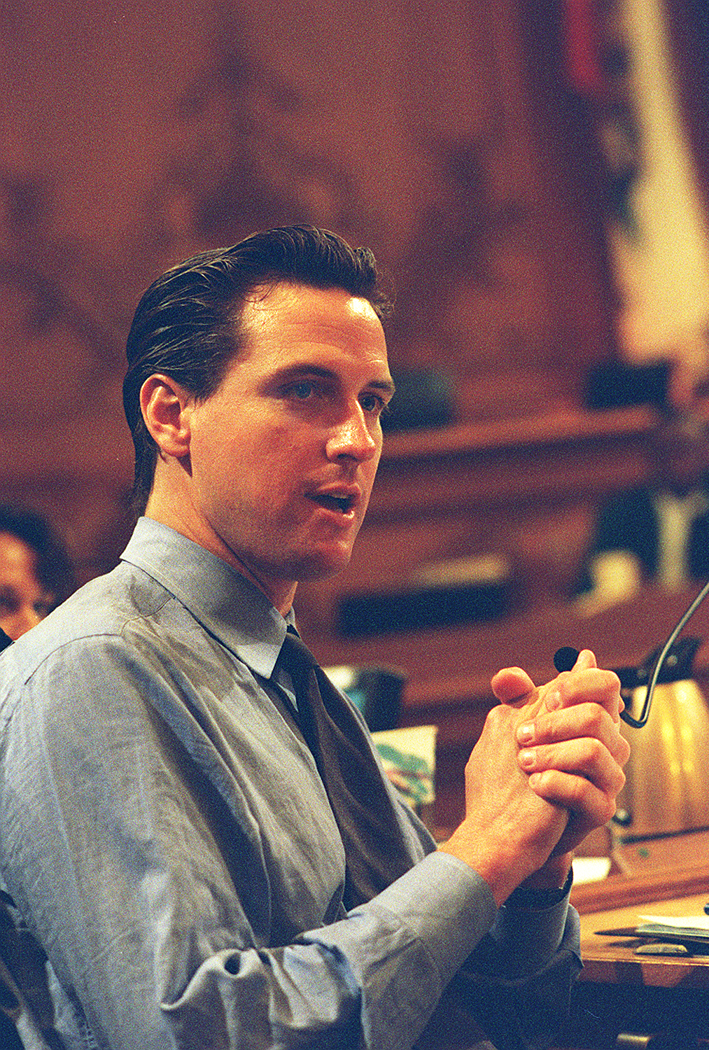 Gavin NEWSOM /C/17JUN99/ photo by NANCY WONG SAN FRANCISCO SUPERVISOR GAVIN NEWSOM, MEMBER OF THE SMALL BUSINESS, ECONOMIC VITALITY AND CONSUMER SERVICES COMMITTEE MEETING AT SAN FRANCISCO'S CITY HALL CONSIDERS THE "BEER BENEFIT EVENTS CLOSURES" BY THE STATE ALCOHOLIC BEVERAGE CONTROL AGENCY OF BEER BENEFIT EVENTS HOSTED BY SAN FRANCISCO'S GAY BARS TO BENEFIT aids SERVICE ORGANIZATIONS.